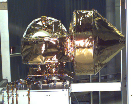 CIRS camera of Cassini